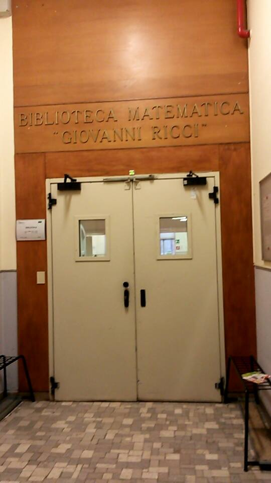 The entry of the library "Giovanni Ricci" in the departement of Mathematics "Federigo Enriques" of UNIMI, in Via Cesare Saldini 50 - 20133, Milan